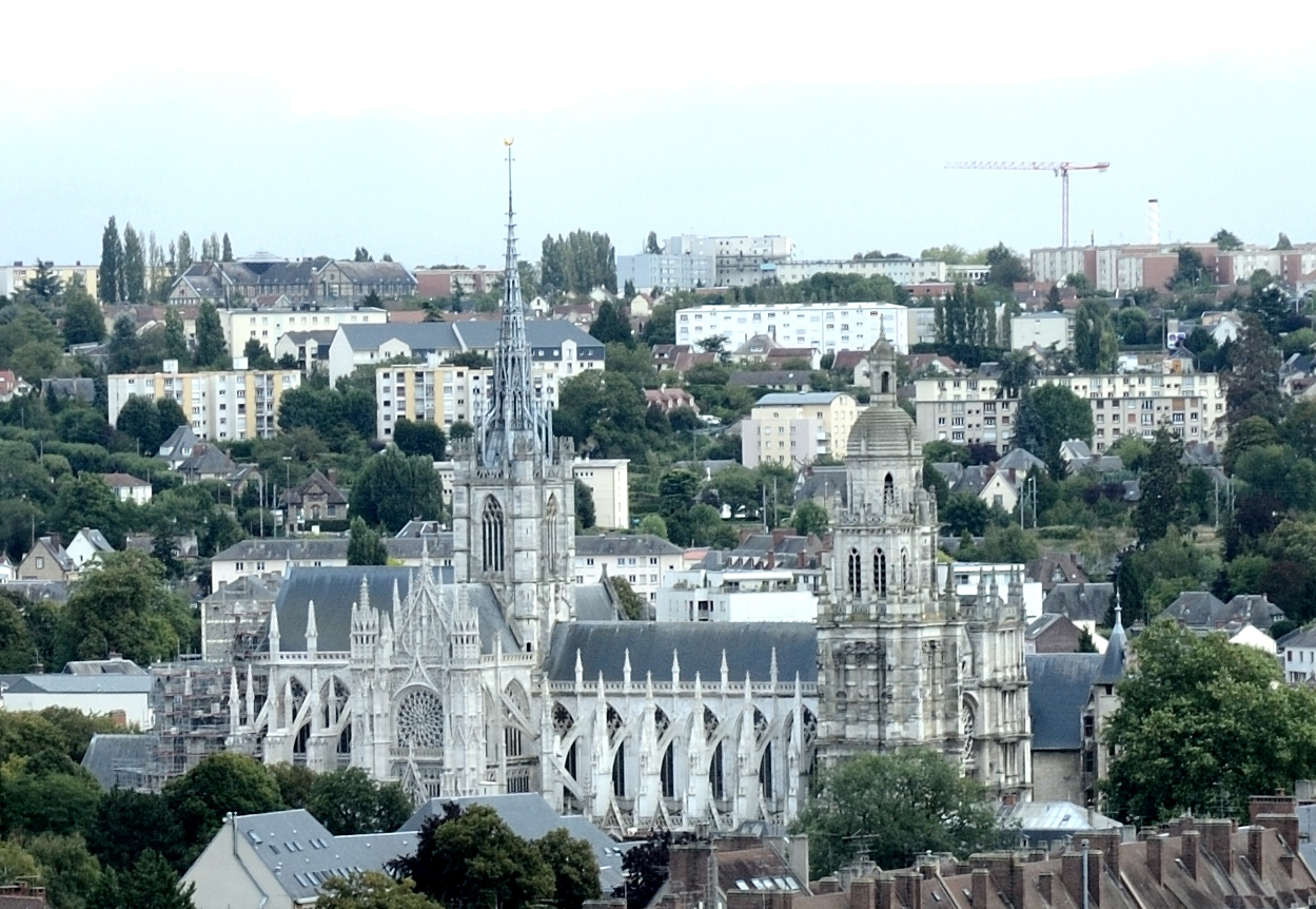 Evreux cathedral, France